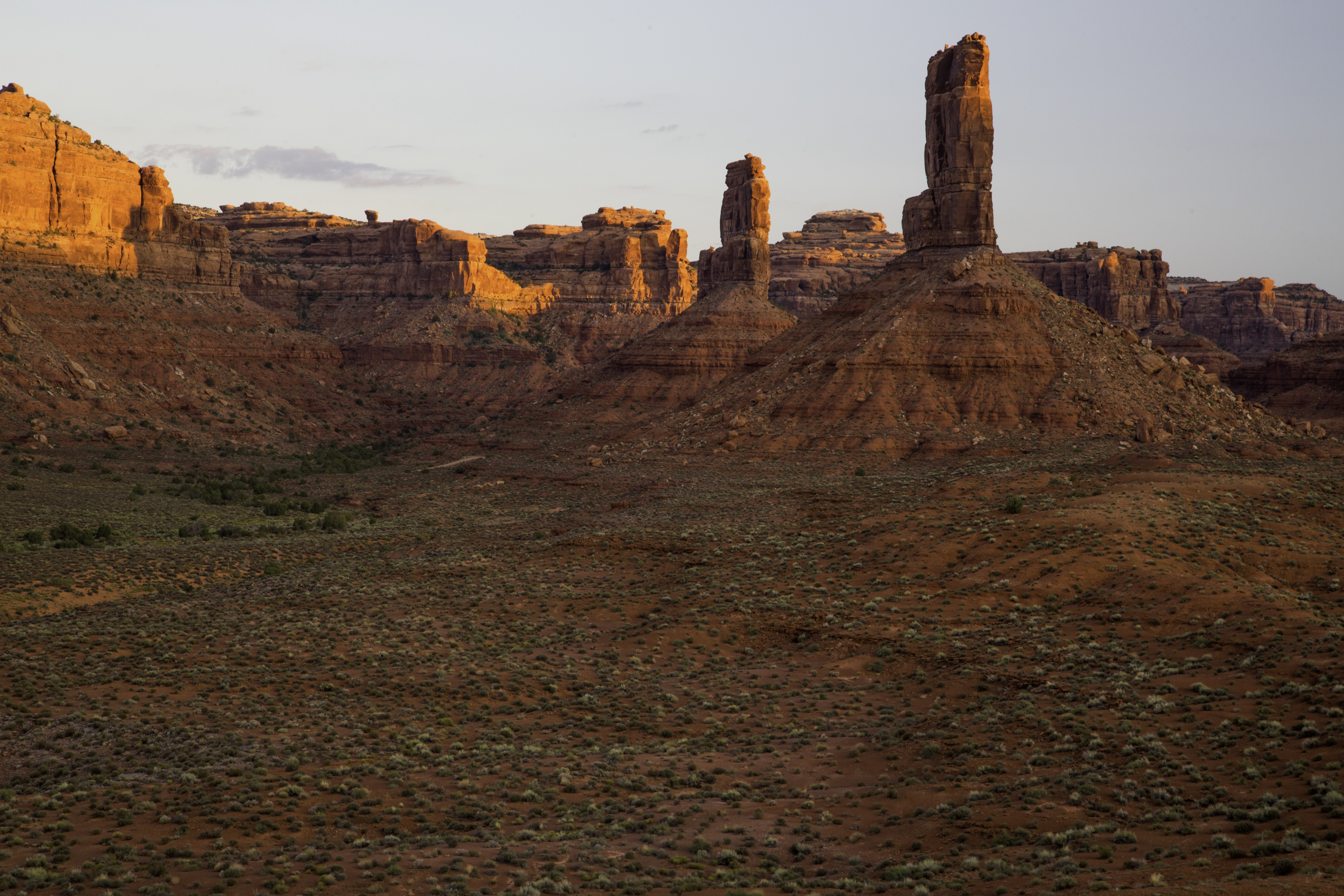 Peaks in Bears Ears National Monument